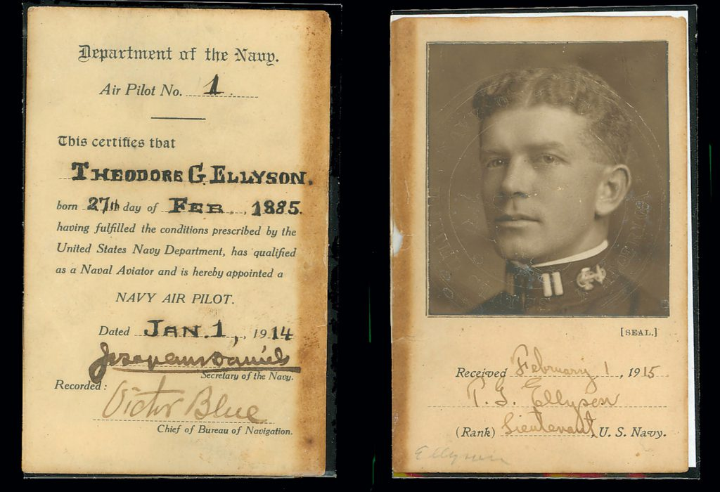 Lieutenant Theodore G. Ellyson in 1910 received orders to report to the Curtiss Aviation Camp at North Island, California, to begin receiving flight instruction under Glenn Curtiss. He was officially designated in 1914 as Navy Air Pilot Number One. Later, the Navy changed his and other early Navy pilots designations to Naval Aviator. Naval History and Heritage Command